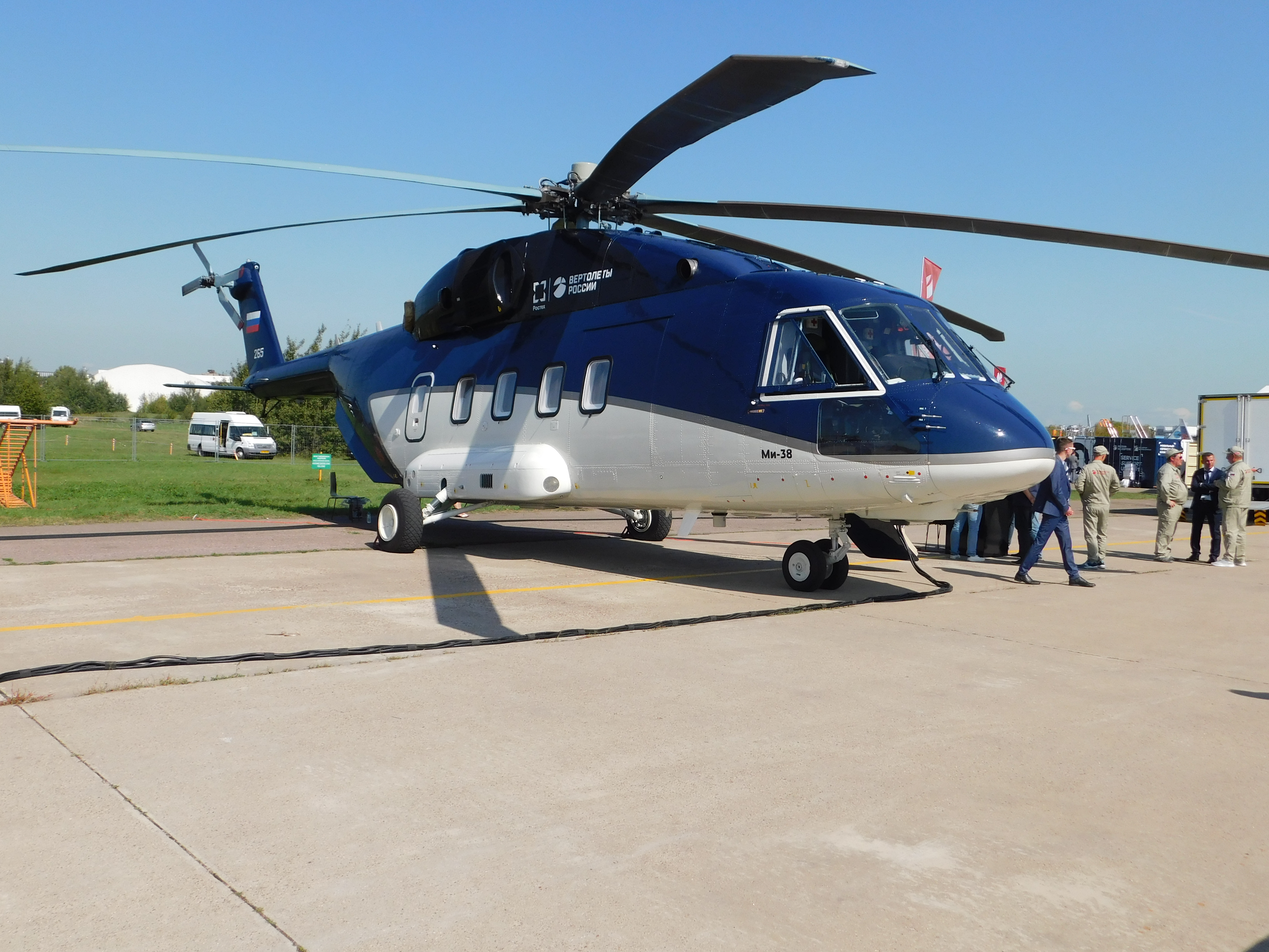 MAKS Airshow 2019 (2019-08-30)